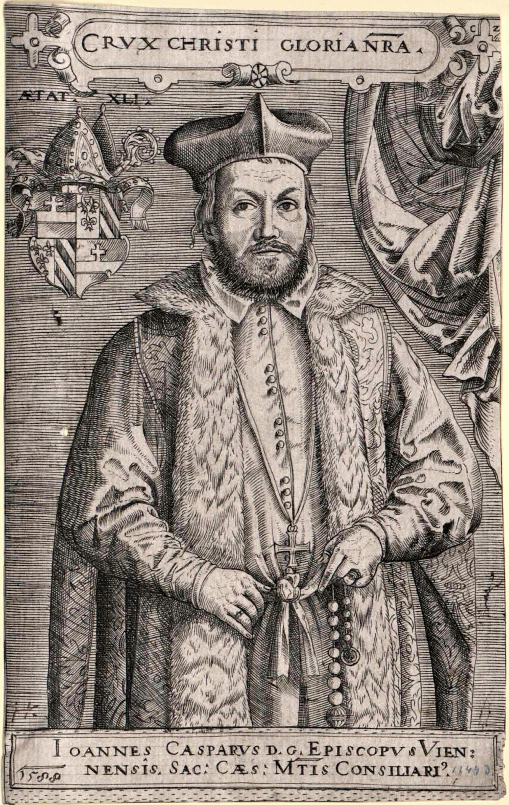 Johann Caspar Neubeck (+ 1594) aus Freiburg/Breisgau, Bischof von Wien